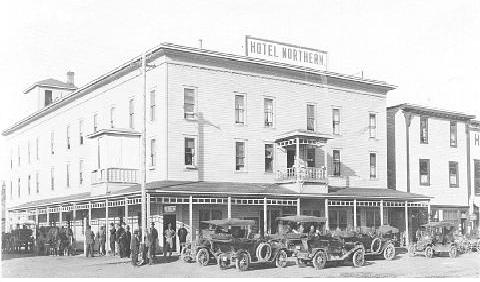 Photo taken 1913 Photographer: Unknown Source:P980.11.16[1]